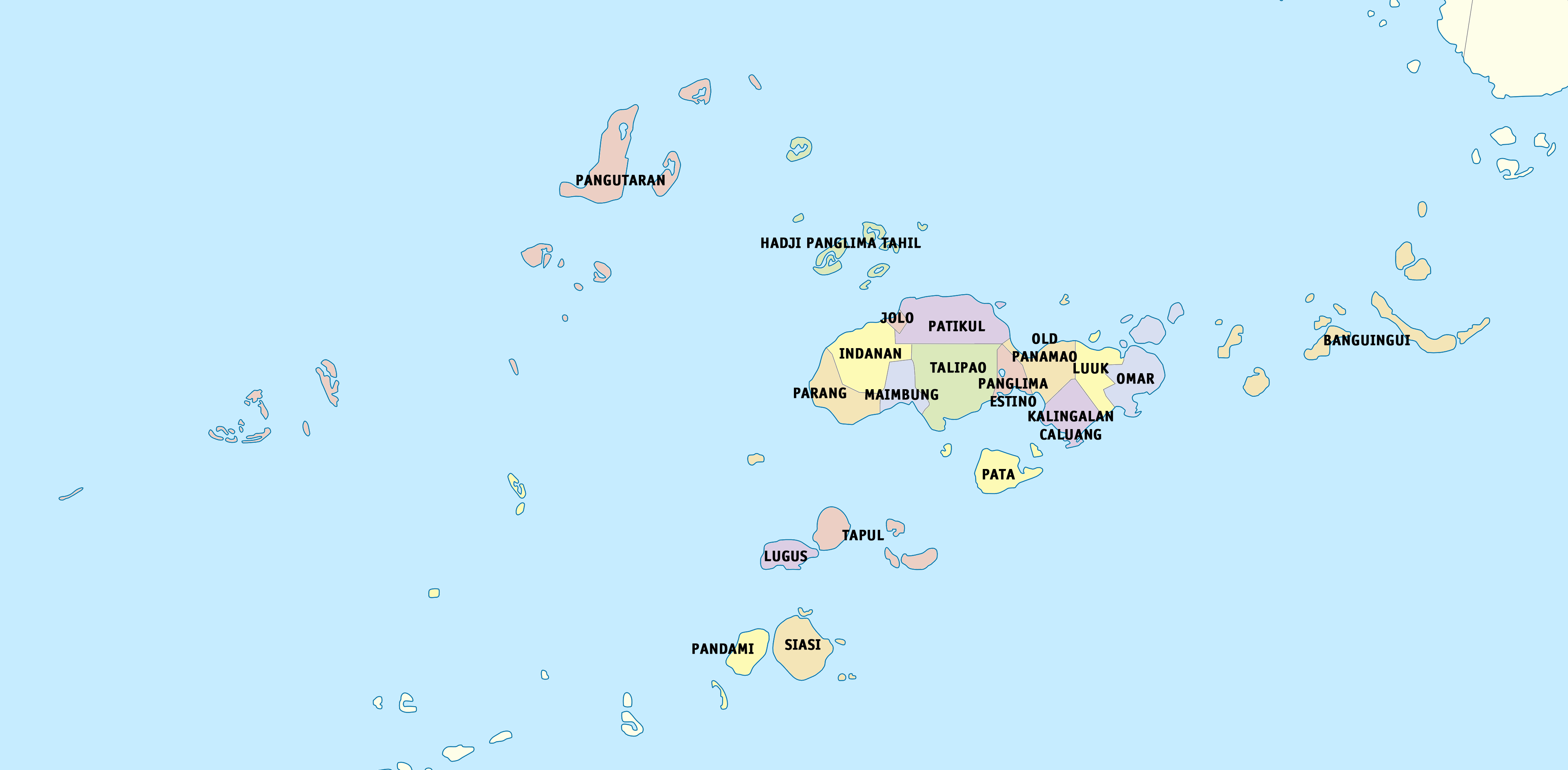 Political map of Sulu, Philippines